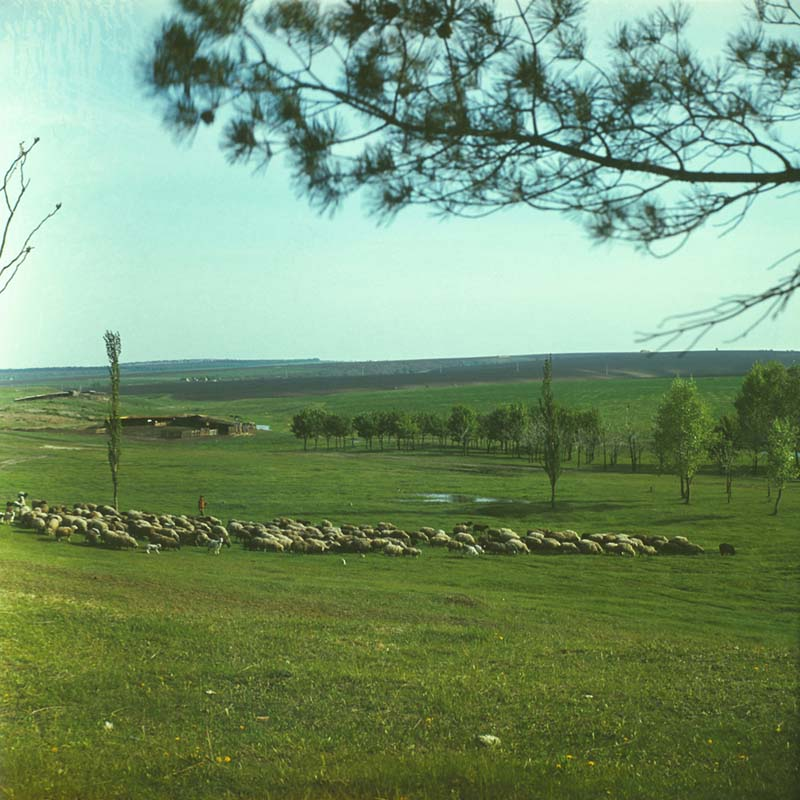 In the neighborhood Glodeni (1980).